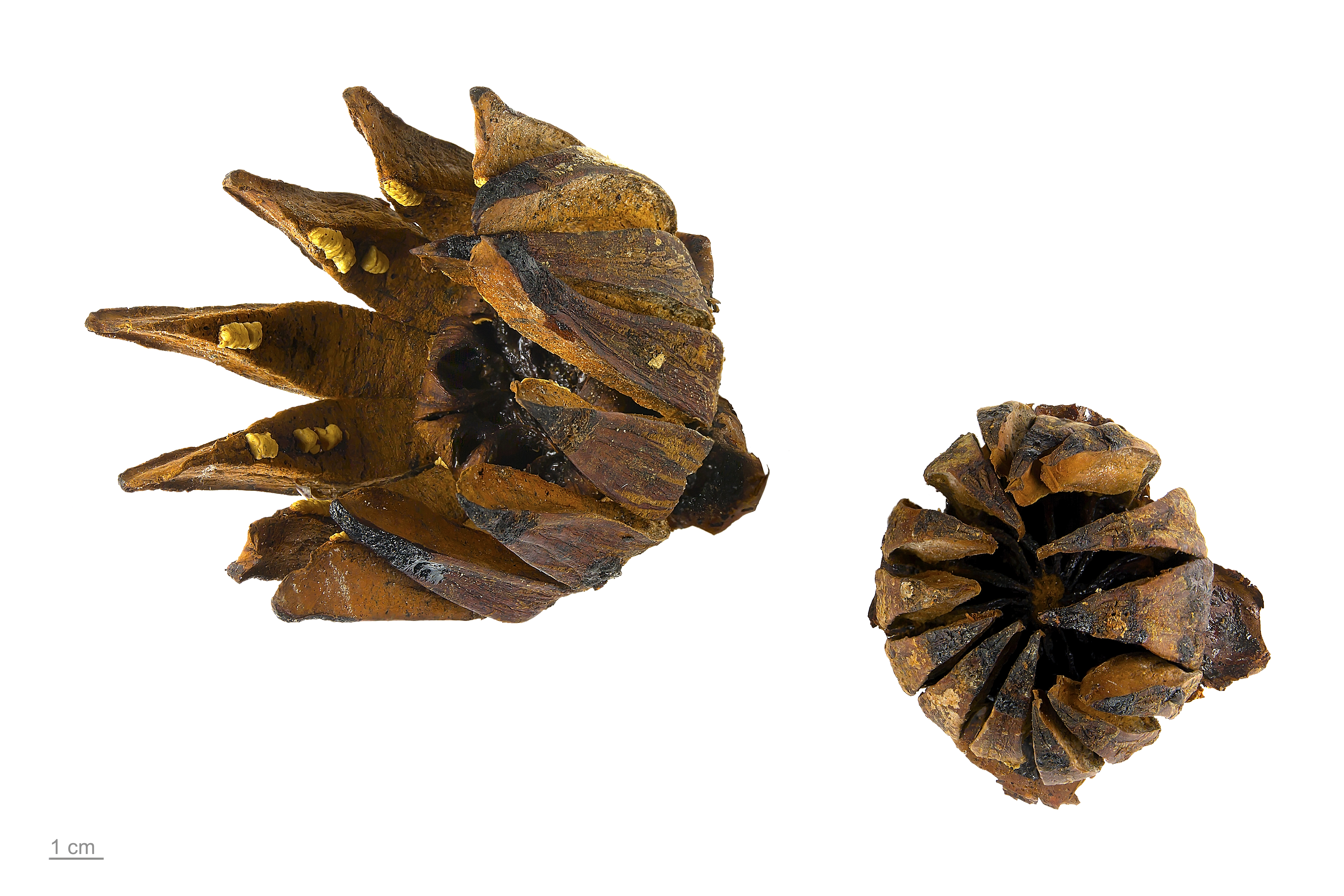 Clusia grandiflora, fruits